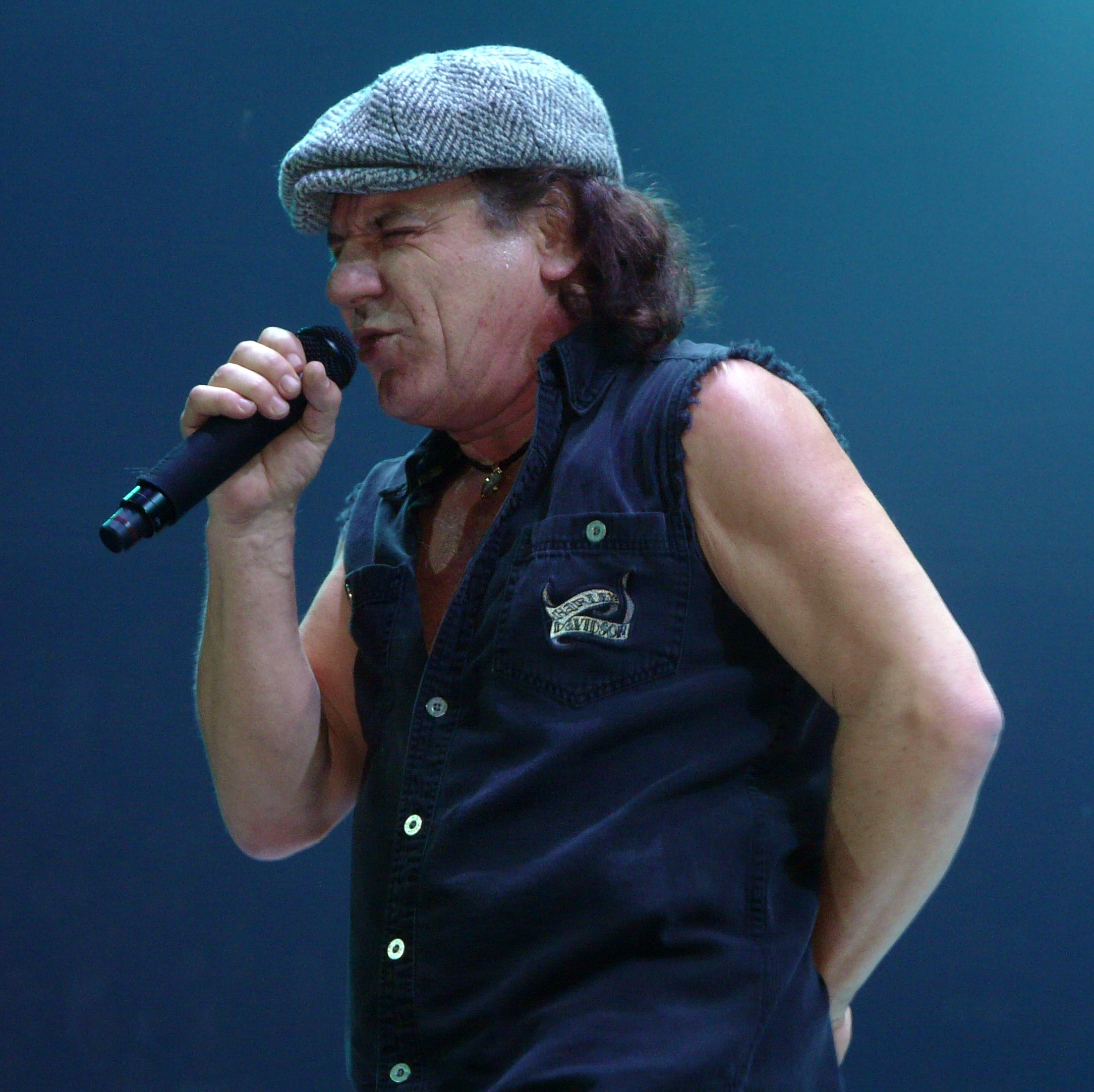 BRIAN JOHNSON Live with AC/DC on November 23, 2008 in St. Paul, MN PHOTO BY MATT BECKER